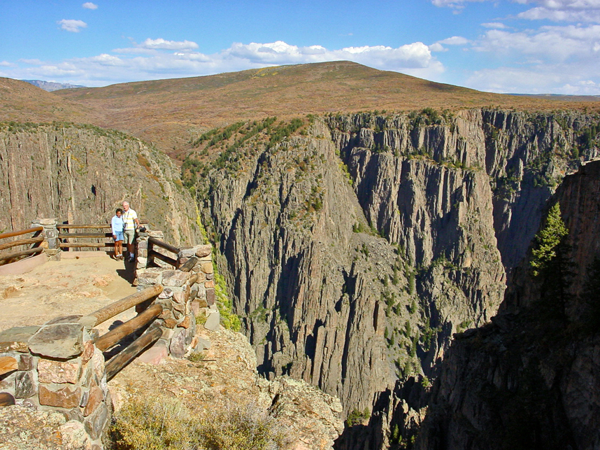 Black Canyon of the Gunnison